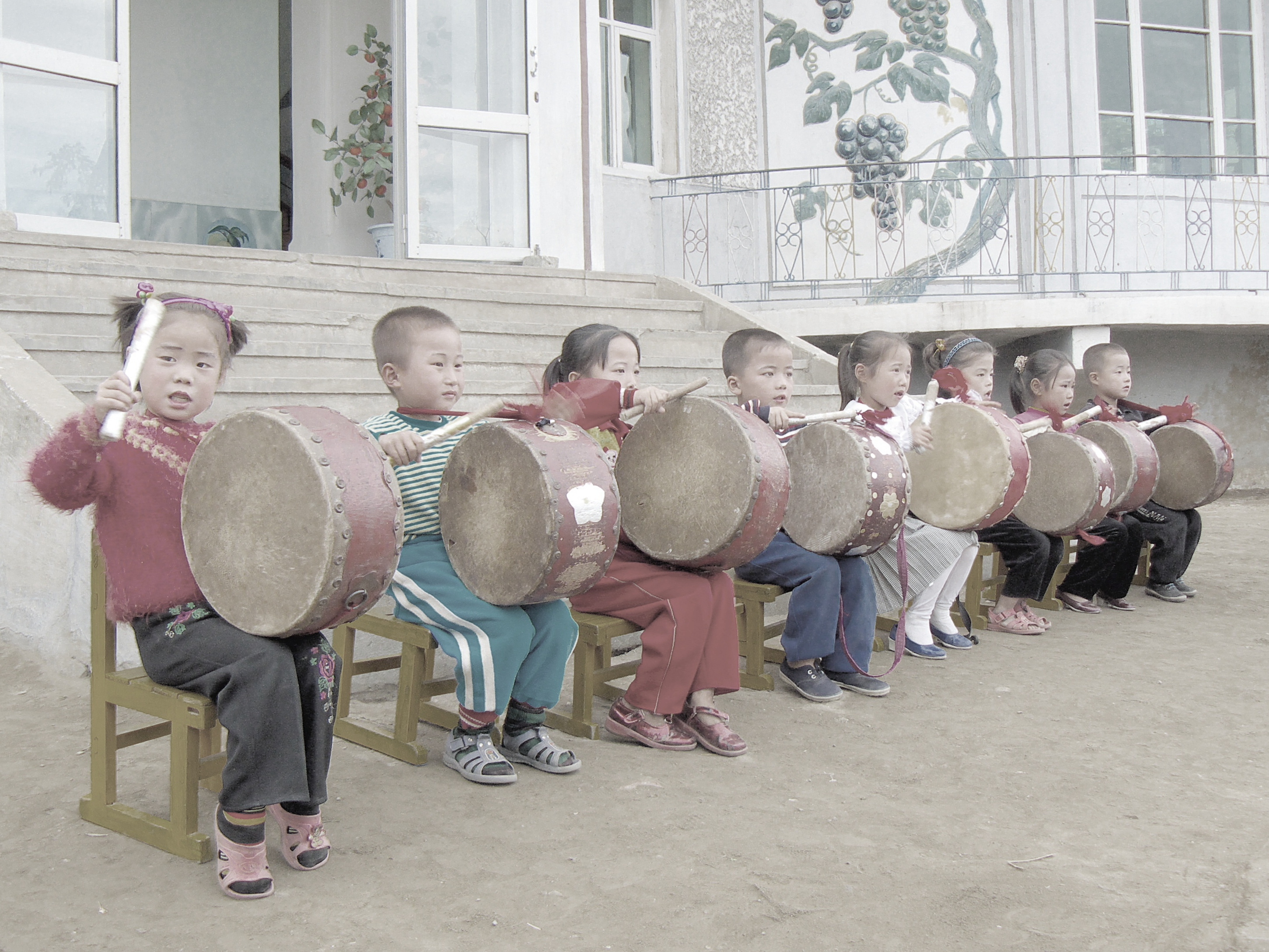 Situated on the outskirts of Wonsan, the Chonsam Cooperative Farm is possibly the only place in the country where foreign visitors are allowed into a working farm. While it is indeed a working farm, it does feel a little bit contrived. Throughout the duration of our visit, which lasted well over an hour, these children were singing, dancing and playing drums endlessly. Was it staged? The drums routine in particular, seemed more like a well-rehearsed performance.